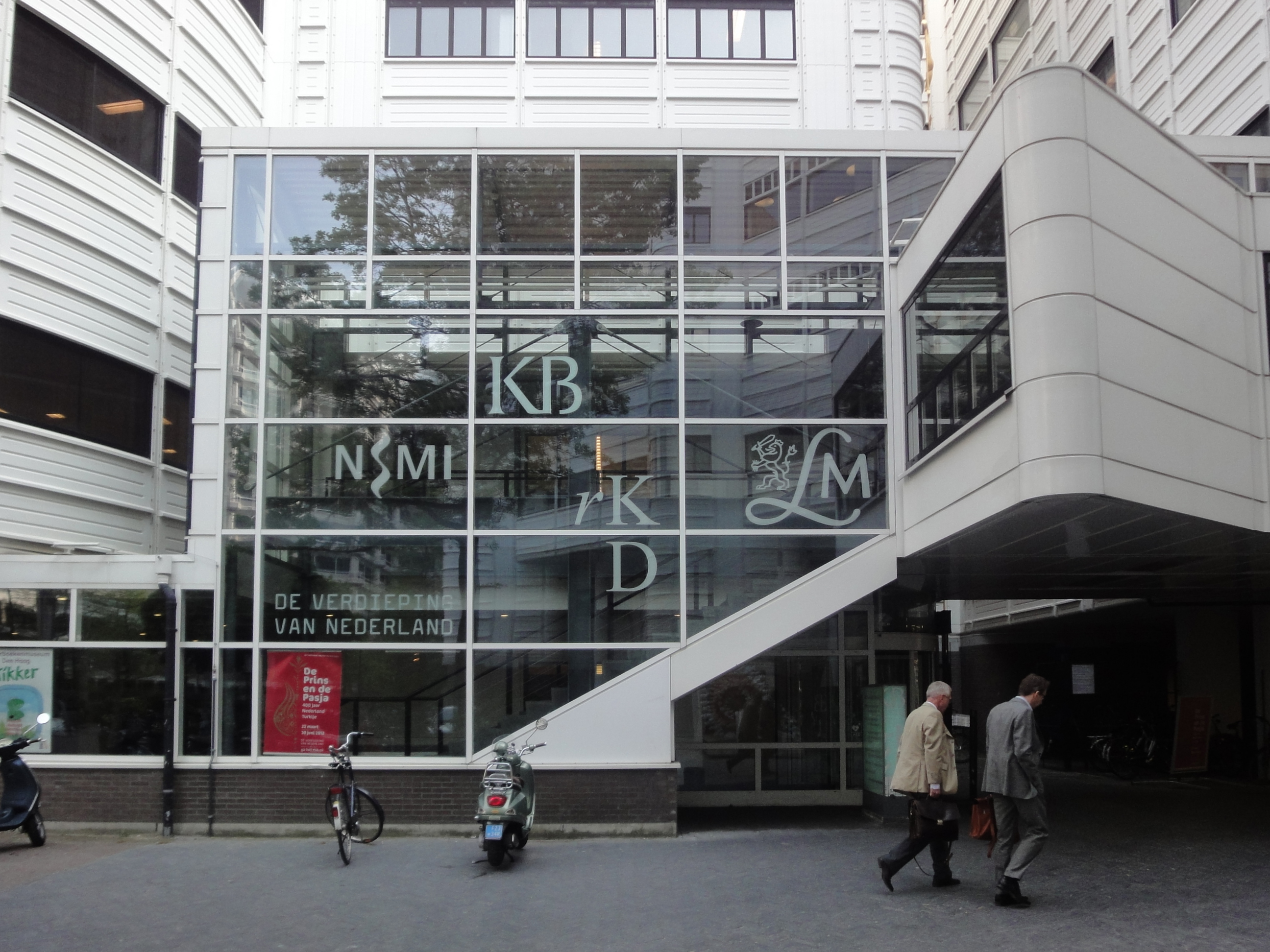 the royal library in The Hague